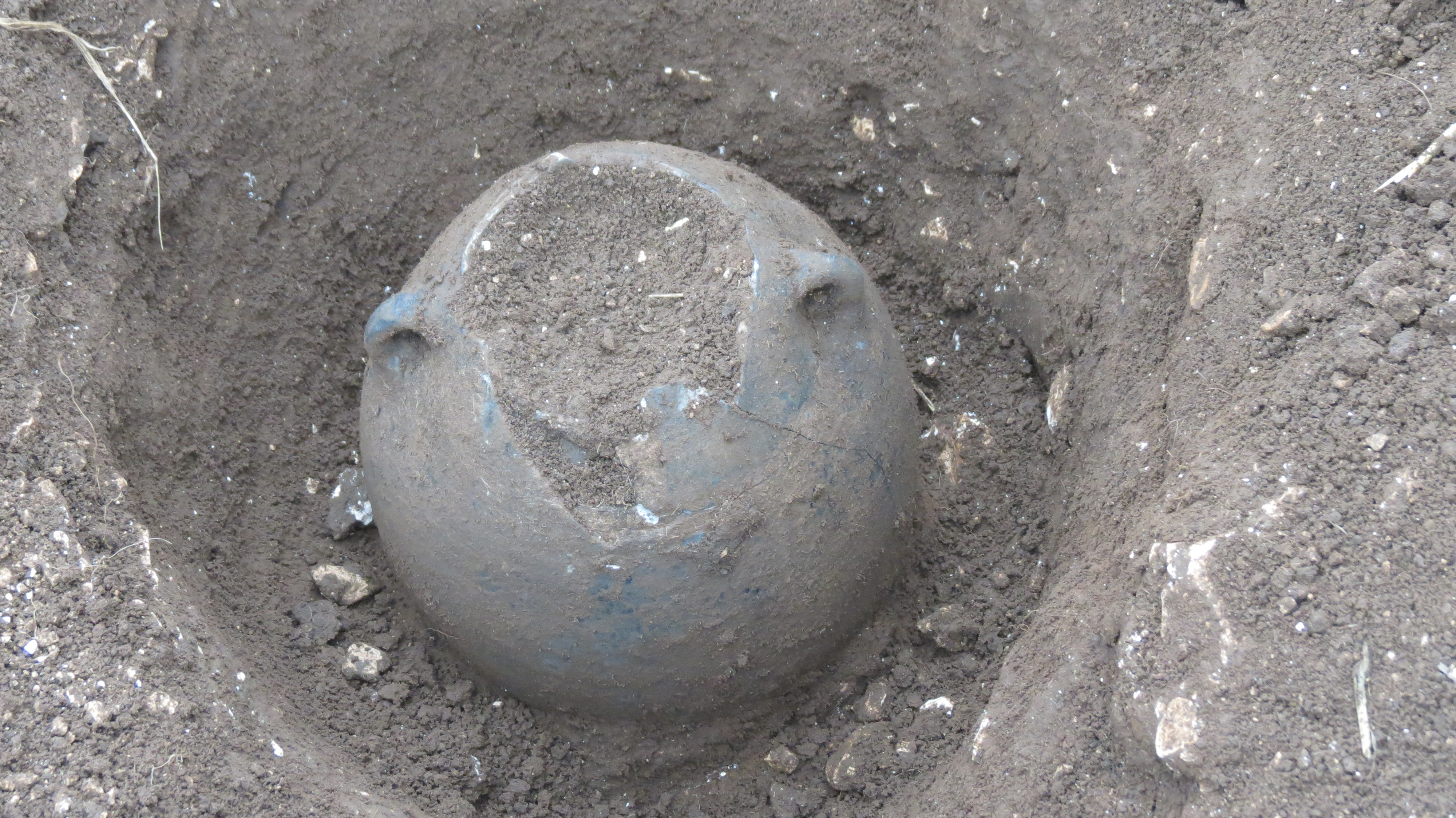 Wold Newton hoard under excavation, as it was found.